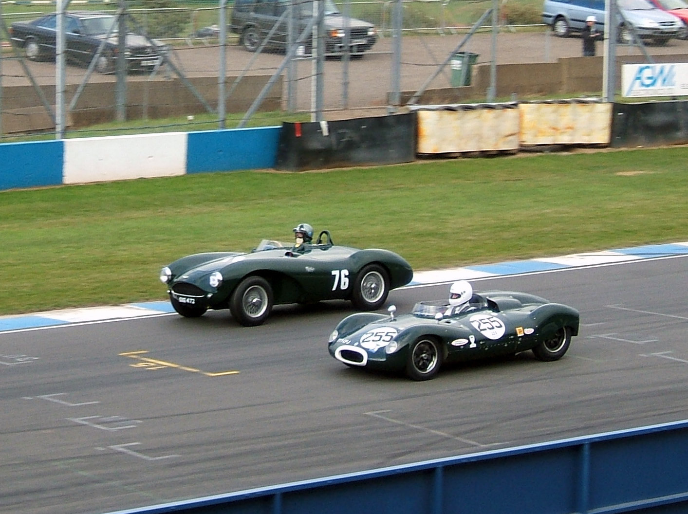 Emma-Jane Gilbart-Smith, in a Cooper Bobtail (#255), accelerates past Hubert Fabri's Aston Martin DB3S (#76), coming out of the chicane during the VSCC SeeRed race meeting, Donington Park, September 2007.